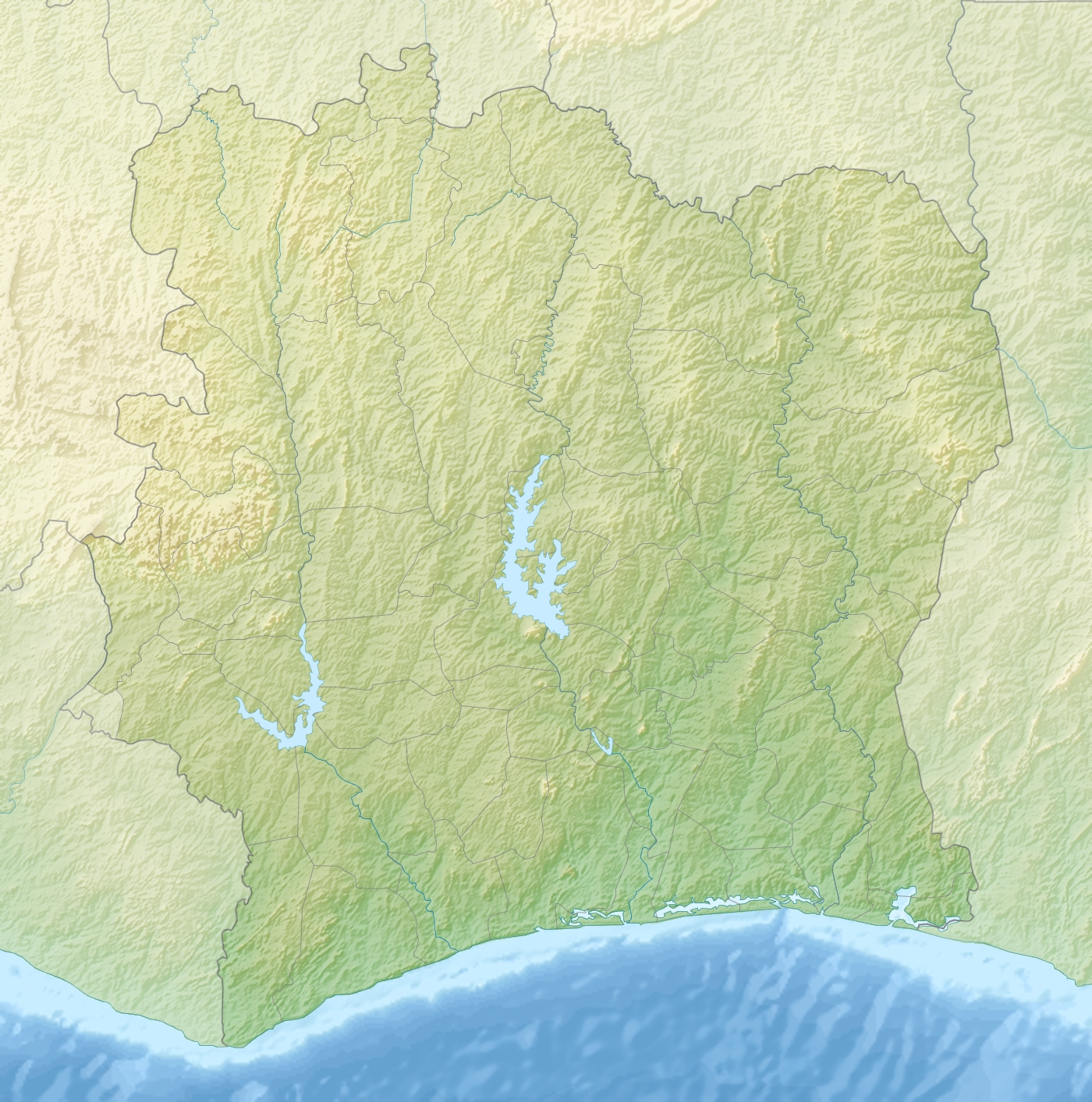 Relief location map of Côte_d'Ivoire. Projection: Equirectangular projection, strechted by 101.0%. Geographic limits of the map: N: 11.0° N S: 4.0° N W: -9.0° E E: -2.0° E GMT projection: -JX23.706666666666667cd/23.94373333333333cd GMT region: -R-9.0/4.0/-2.0/11.0r GMT region for grdcut: -R-9.0/4.0/-2.0/11.0r Relief: SRTM30plus. Made with Natural Earth. Free vector and raster map data @ .